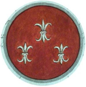 Coat of Arms of Jurbarkas city in 1792